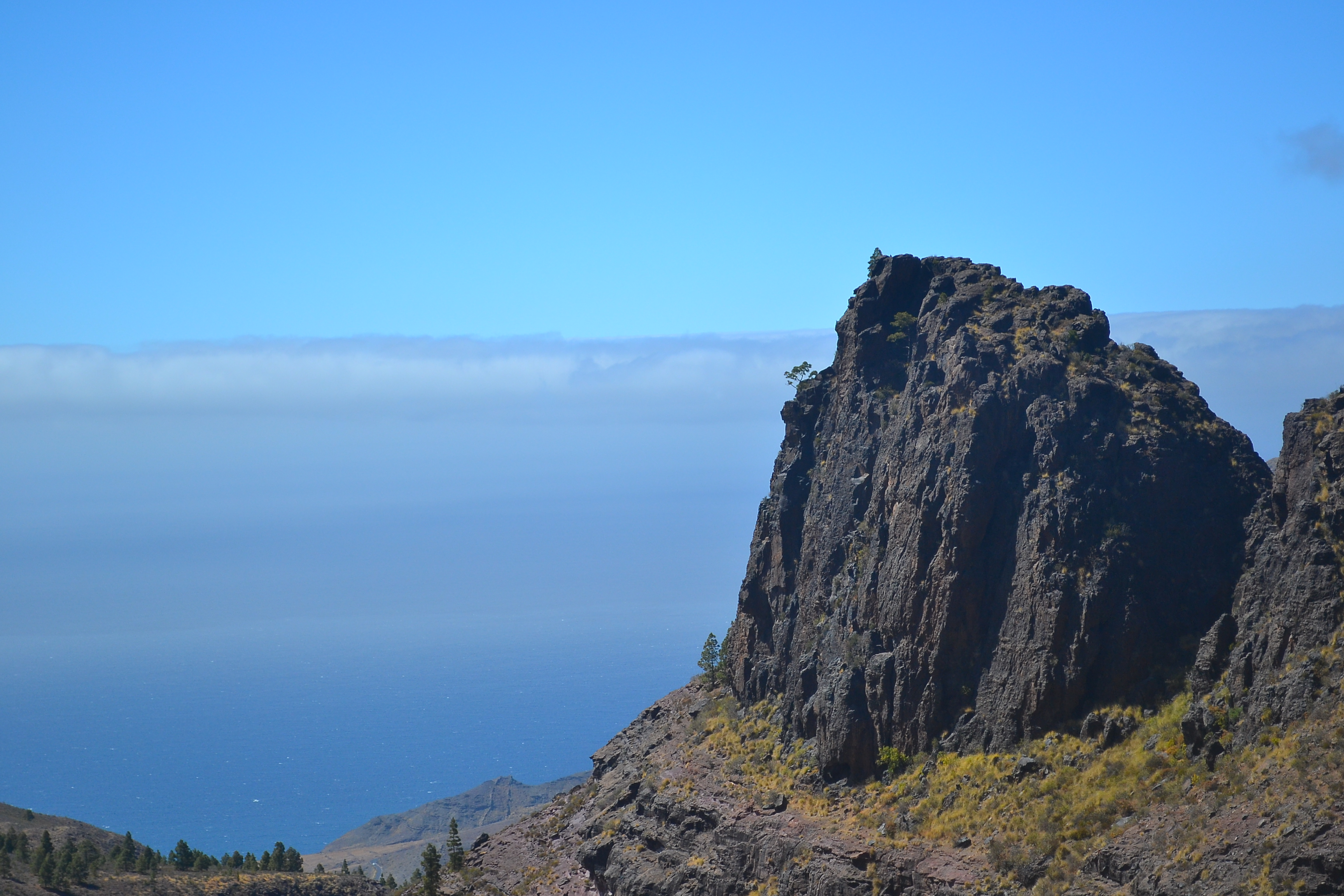 Landscapes of Natural Park of Tamadaba (Gran Canaria, Canary Islands).